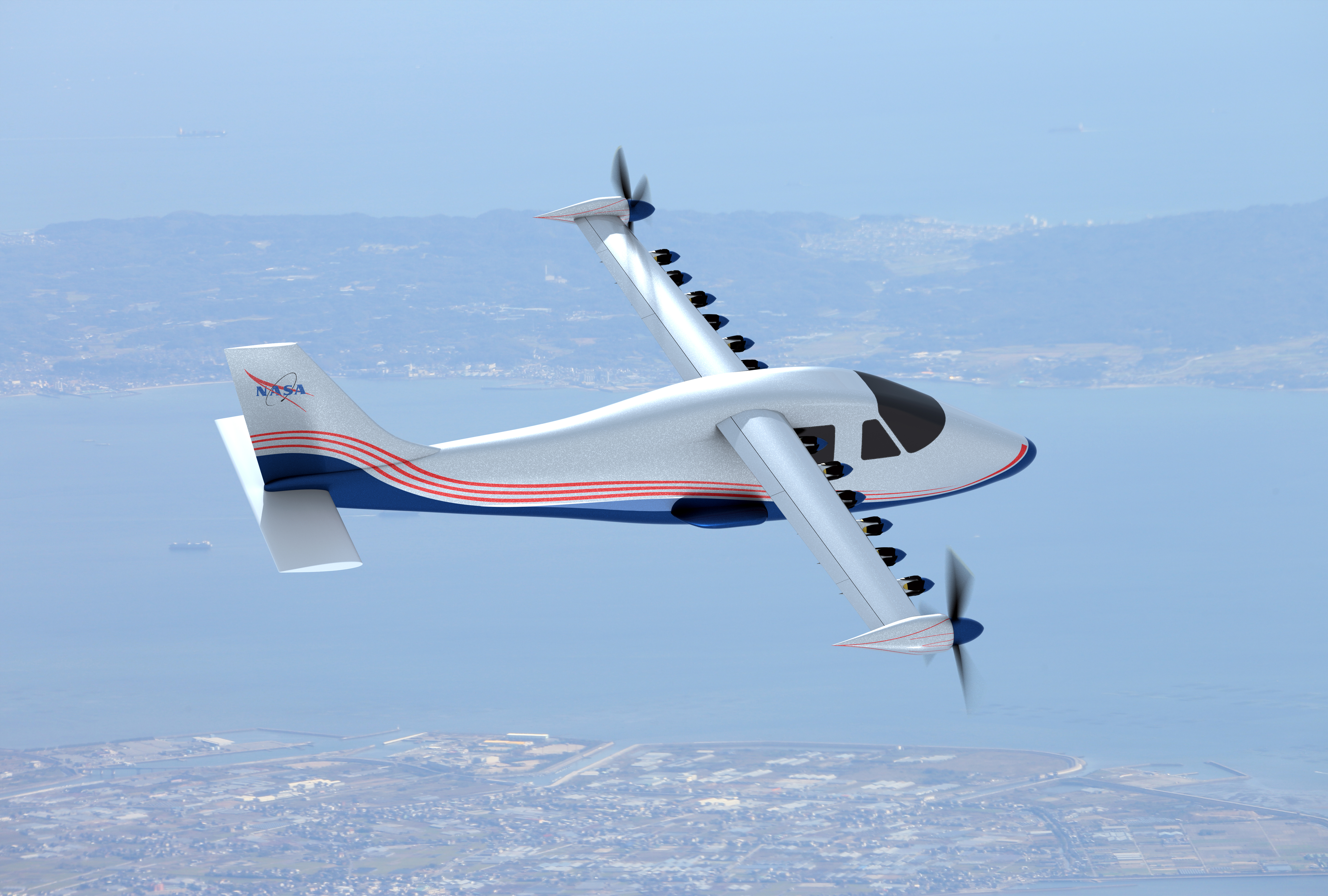 Artist's concept of NASA's X-57 Maxwell aircraft.